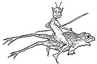 Illustration from book The Goblins' Christmas by Elizabeth Anderson.